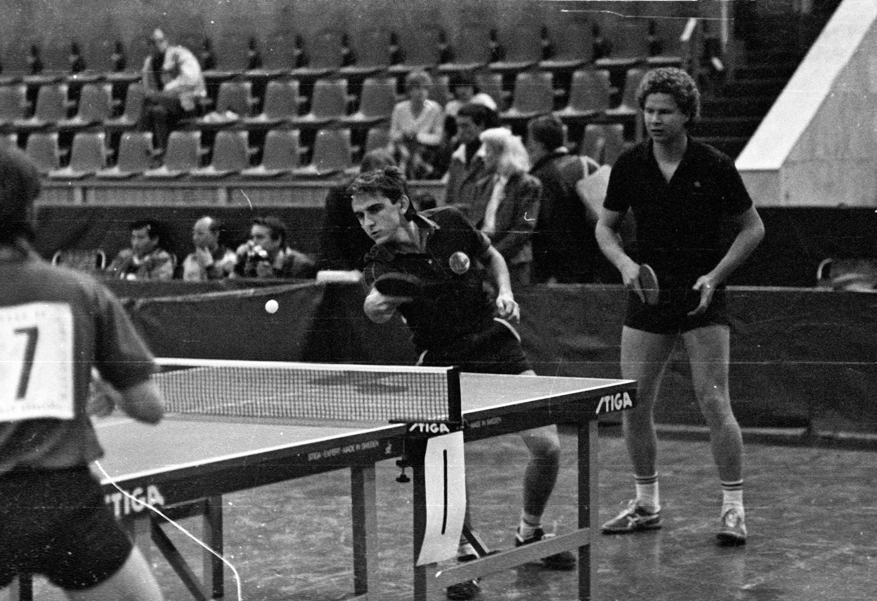 Evgueni Chtchetinine and Igor Solopov in 1988